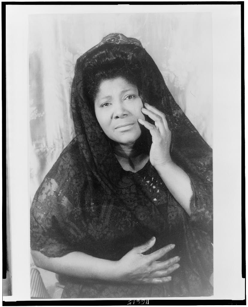 Mahalia Jackson, 16 April. 1962